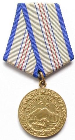 USSR Medal "Defense of Caucasus" Crop of commons picture: Image:Medal kaukaz USSR.jpg